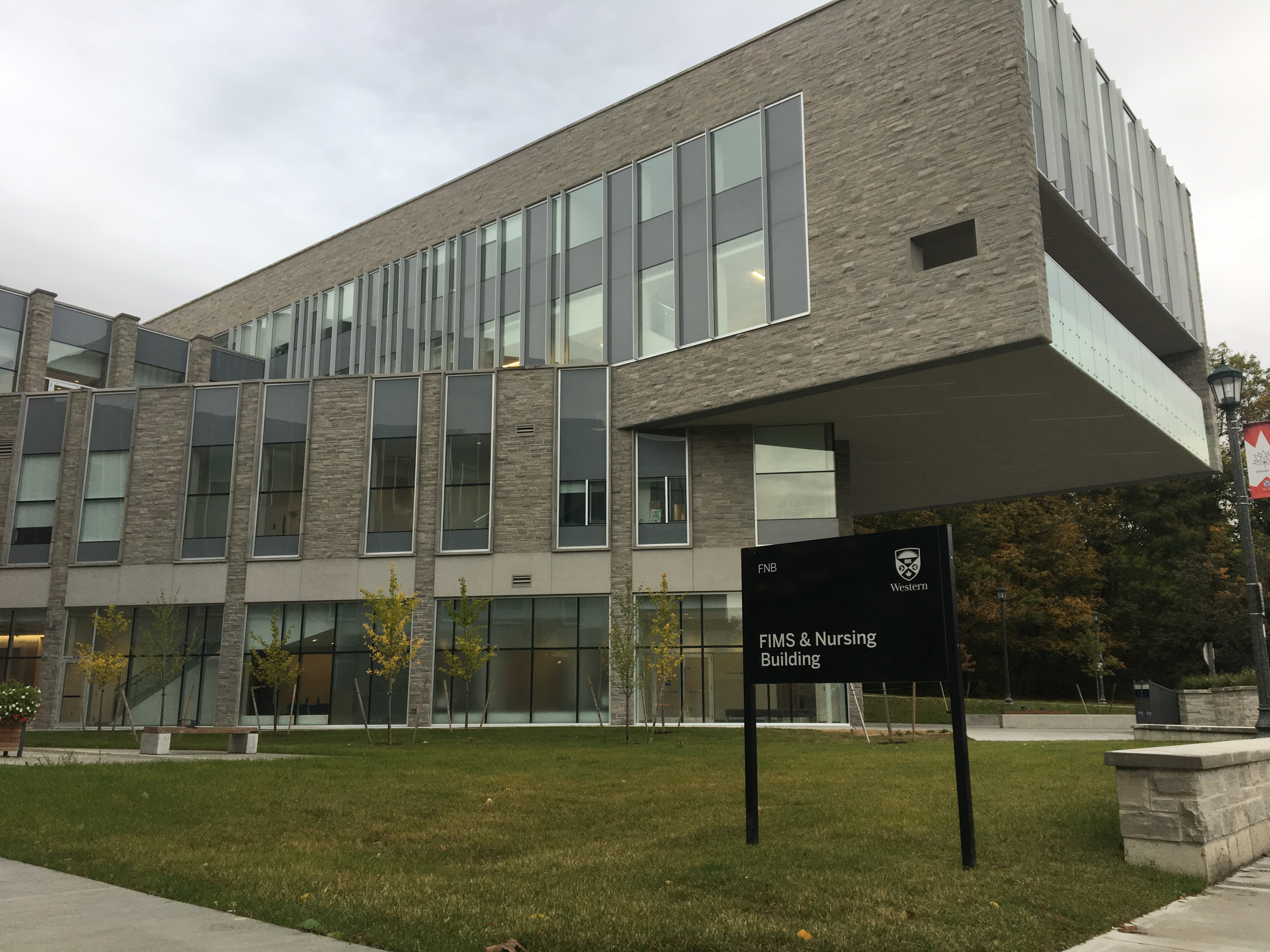 Photo of the FIMS & Nursing Building at Western University